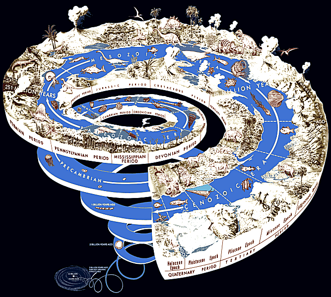 Sharpened version of File:Geological time spiral.png, for improved legibility